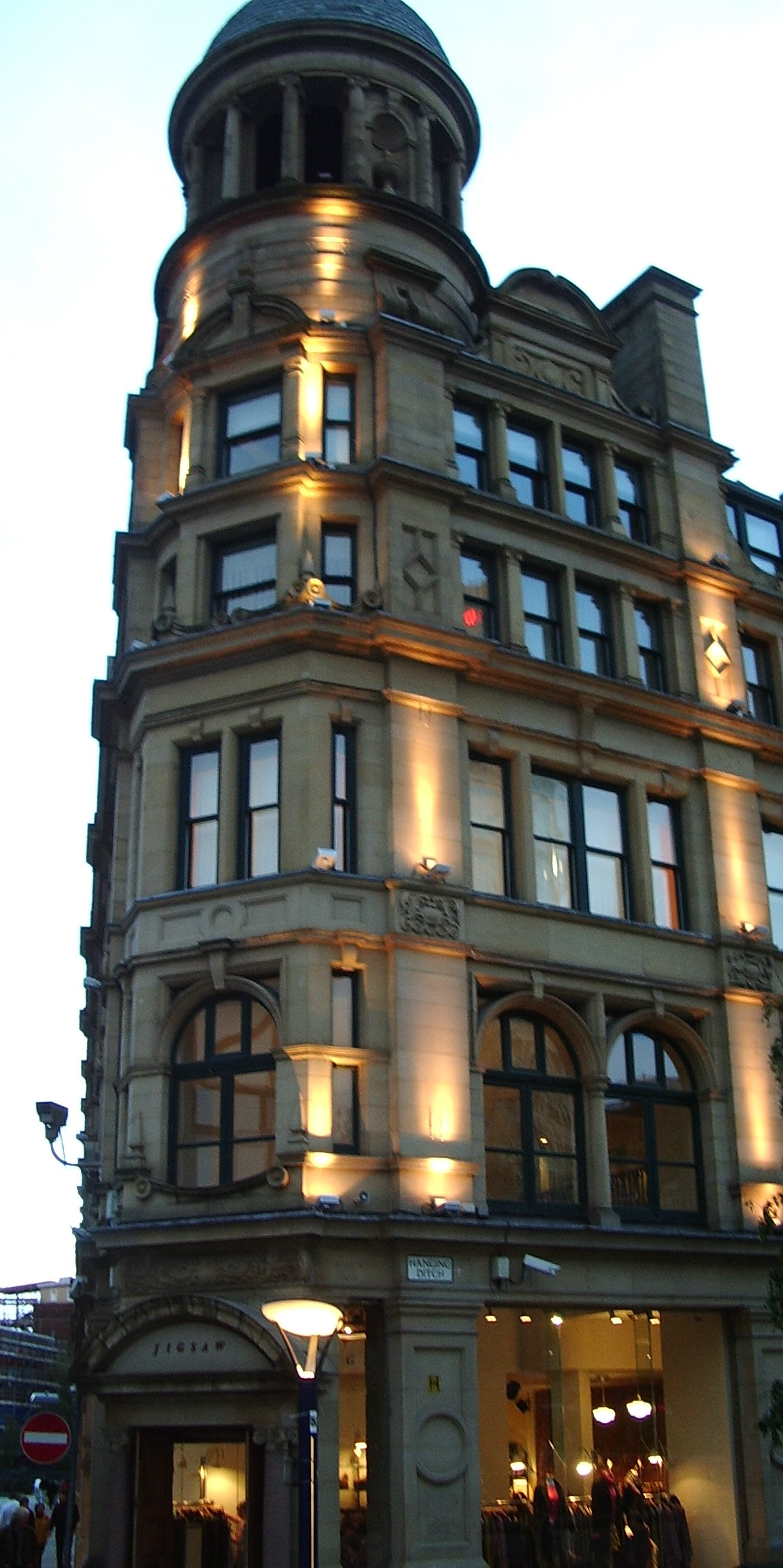 Corn Exchange, Manchester, photograph taken by Lmno on 9 Oct 2004